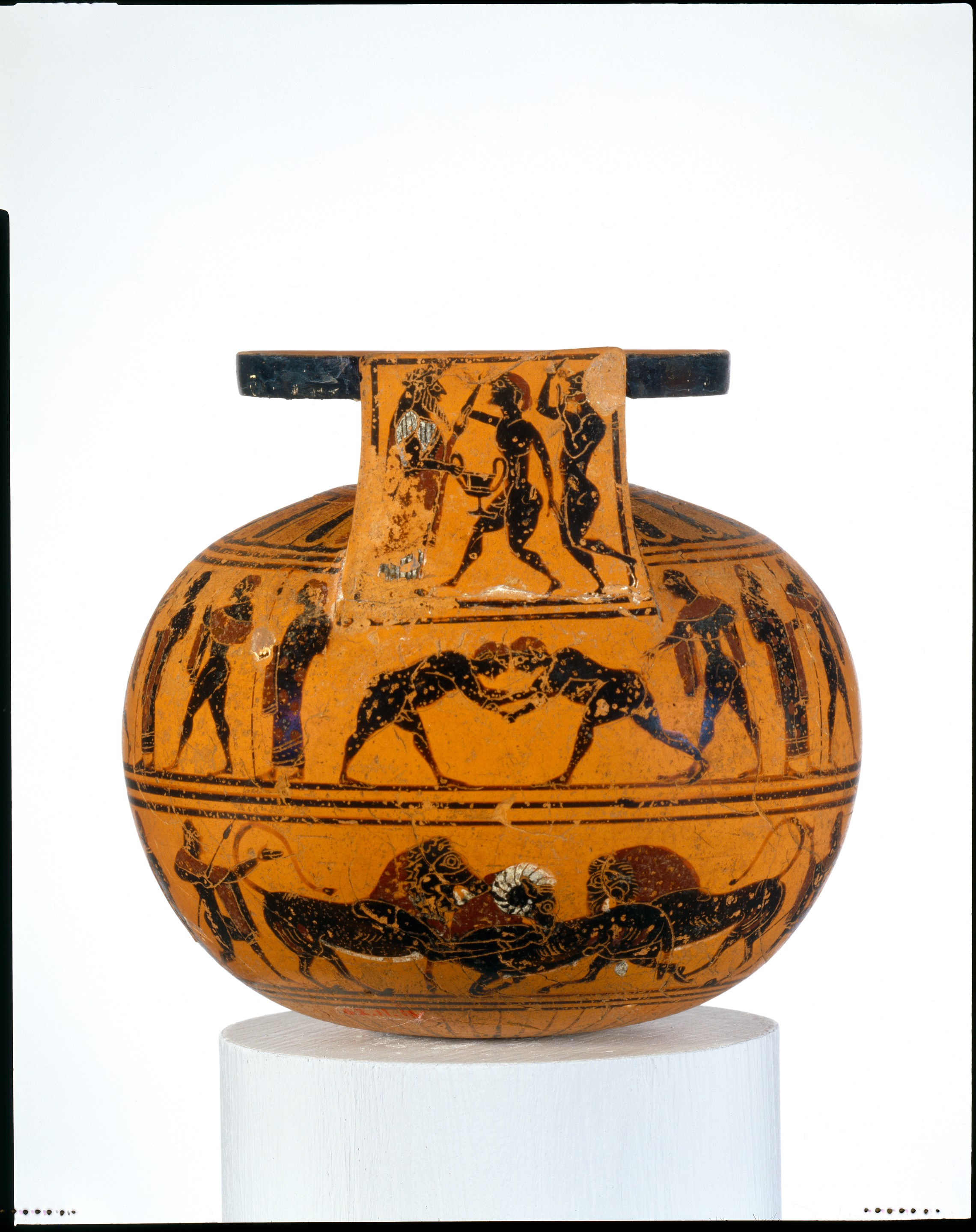 Greek, Attic; Aryballos; Vases; On the handle, Dionysos and two revelers; Upper frieze, horse tamer between onlookers and two wrestlers; Lower frieze, animal combats between onlookers